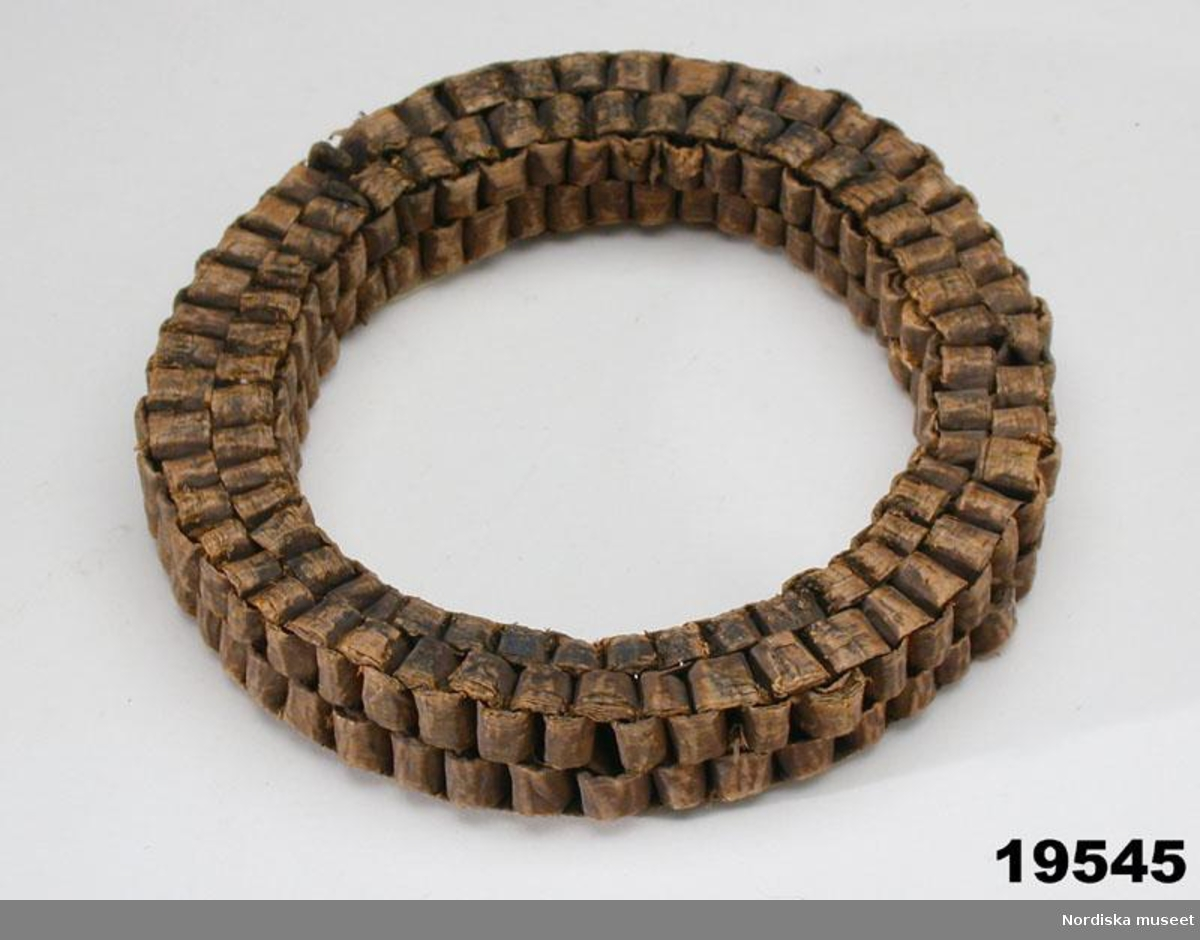 Yeast ring from 1877 or earlier